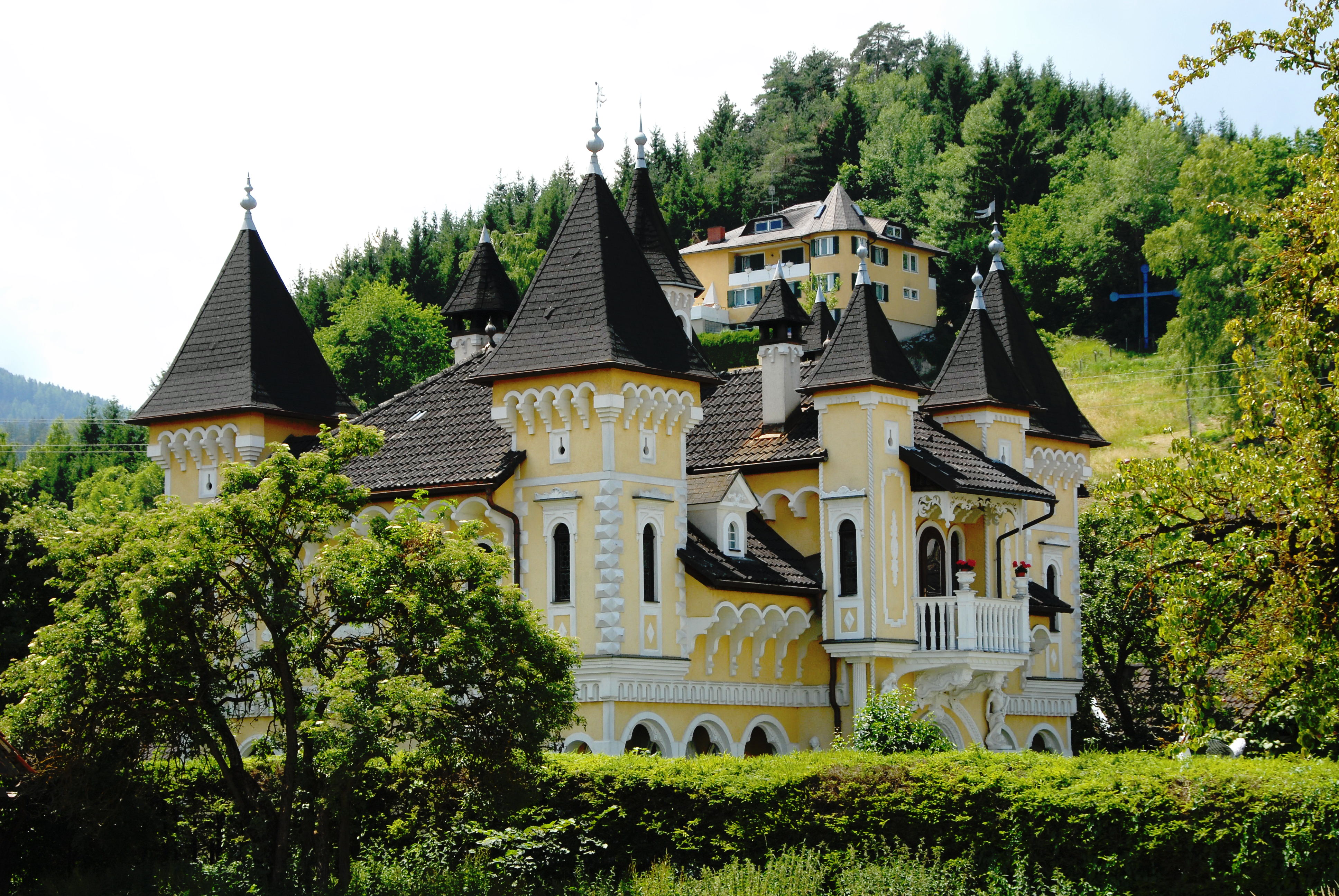 Castle Elberstein at Globasnitz, Carinthia, Austria